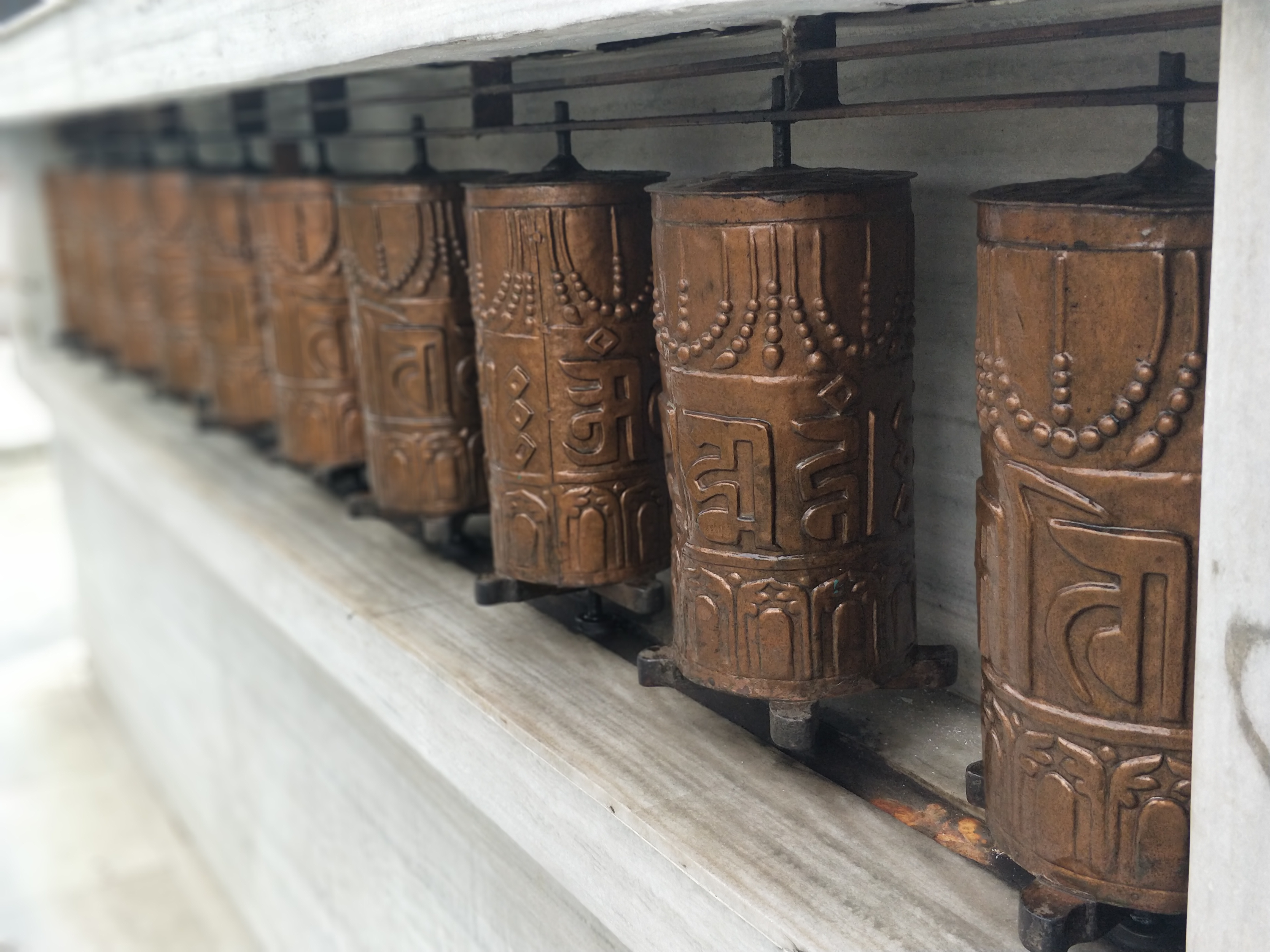 This is a Tibetan monastery Prayer wheel in Mussorrie,Uttarakhand, India